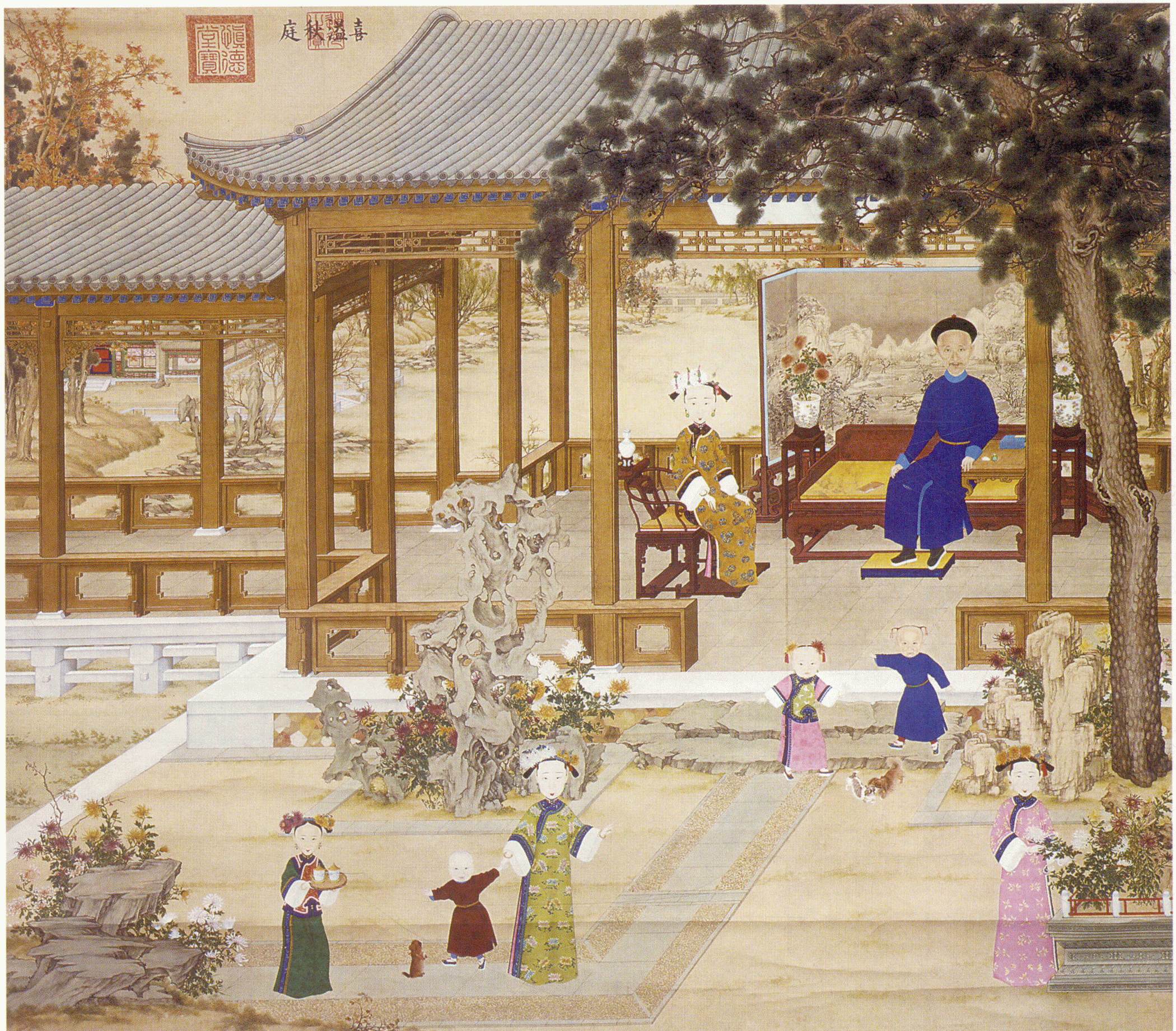 Top row: Empress Xiaoquancheng and the Daoguang Emperor Middle row: Princess Shou'an of the First Rank and Yizhu Bottom row: A lady-in-waiting, Yixin, Empress Xiaojingcheng and Noble Consort Tong